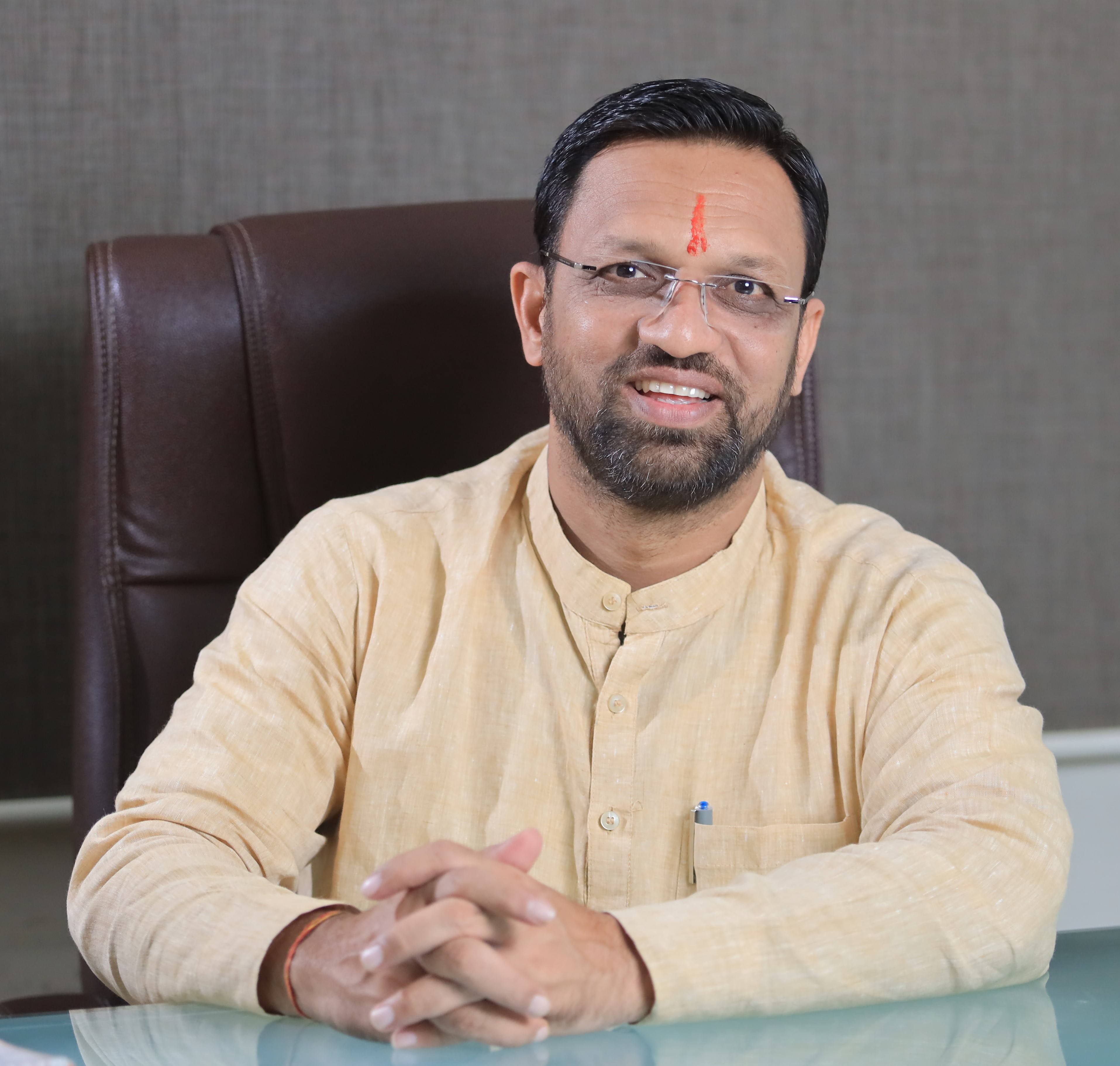 Pravin ghuge is politician and social worker from marathwada